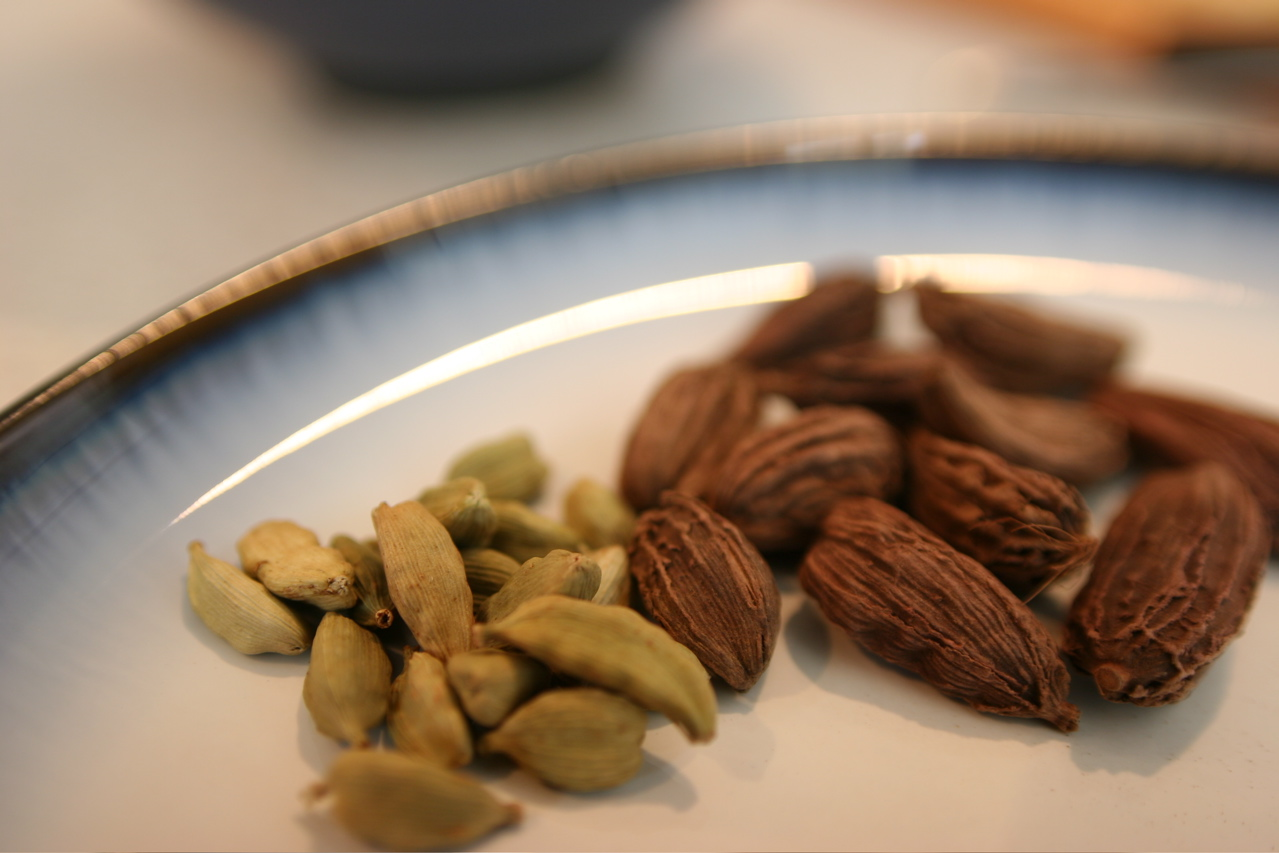 Black and green cardamom seed pods